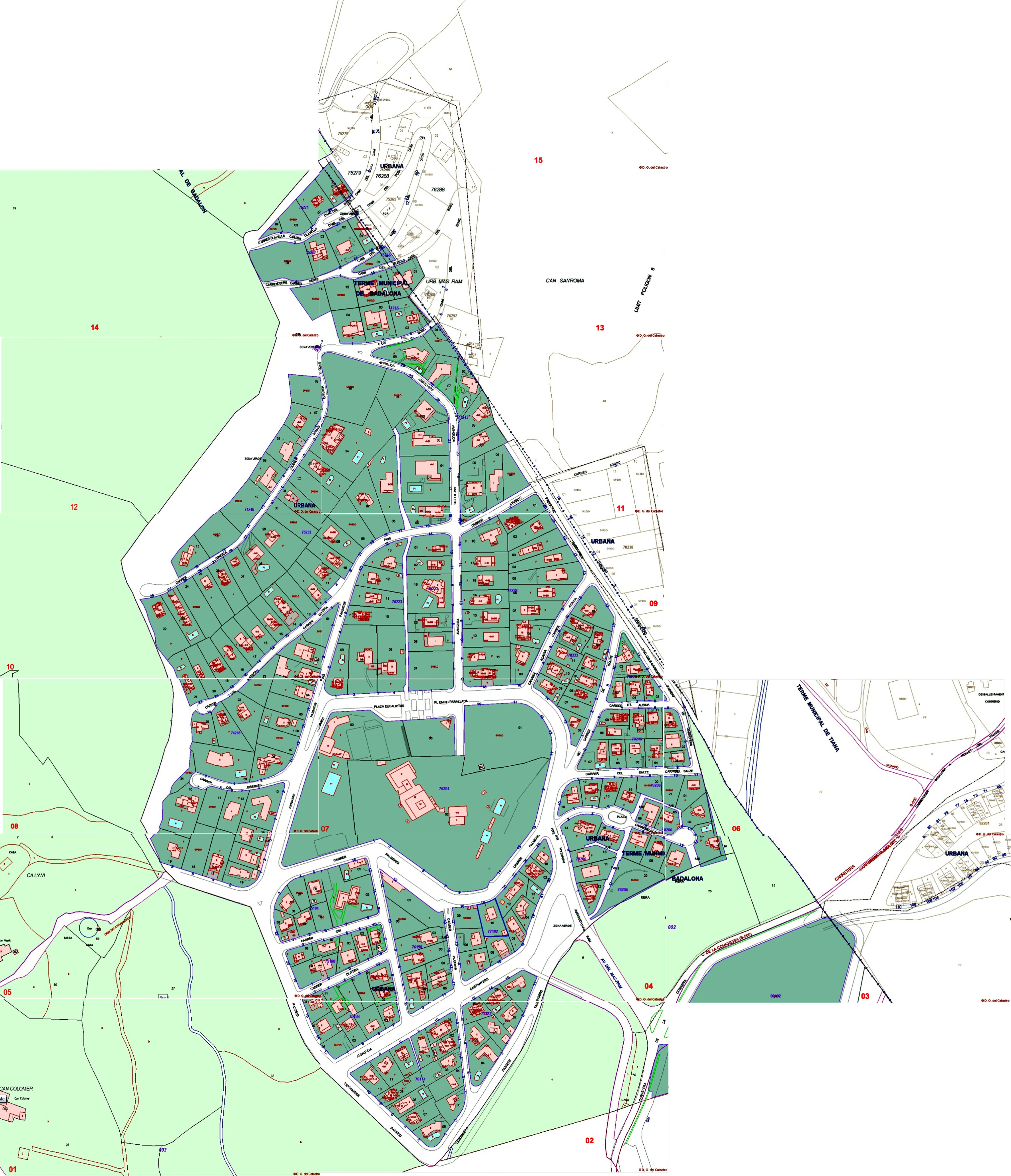 Mas Ram map